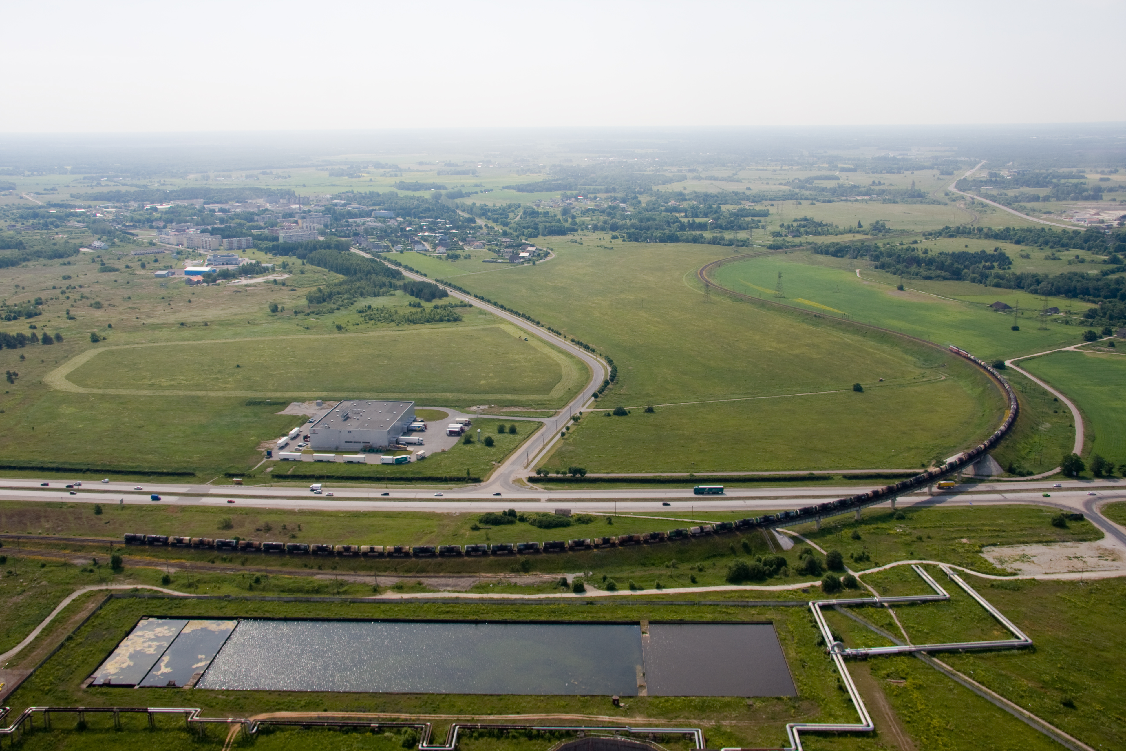 A freight train pulling 60 tank cars heading from Muuga towards Lagedi (near Tallinn, Estonia). Picture taken from top of the chimney of Iru Power Plant (h=202 m)